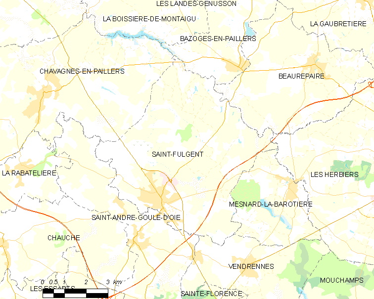 Map of French municipality Saint-Fulgent